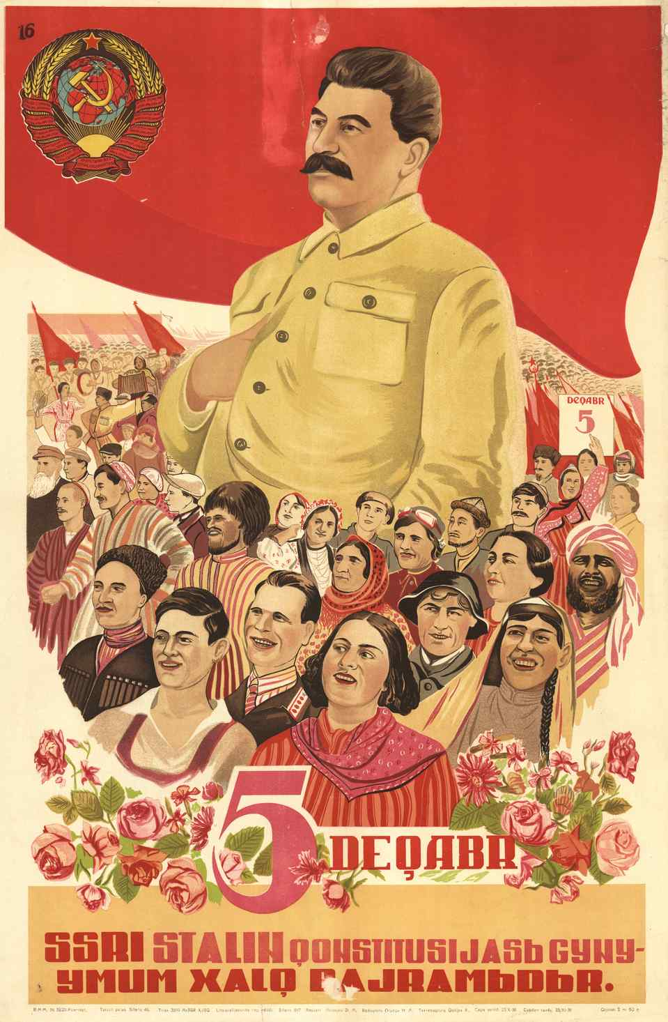 Poster of Azerbaijan 1938. Constitutions